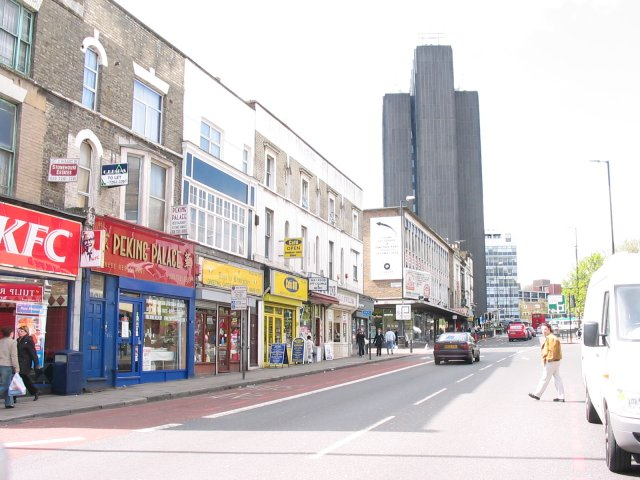 Archway. Top end of Holloway Road (part of the A1) looking northwest towards Archway tube station which sits beneath Archway Tower as it was then known (As of 2016 the newly refurbished and re-clad apartment building looks quite different and is called "Vantage Point")